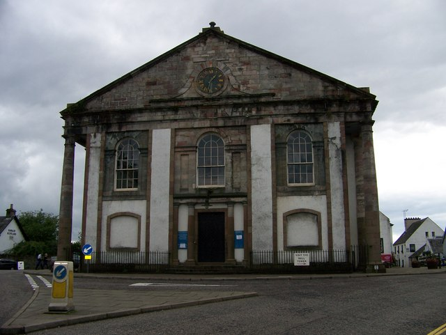 North view of the Church of Scotland, Inveraray The church forms an impressive roundabout at the head of the main street